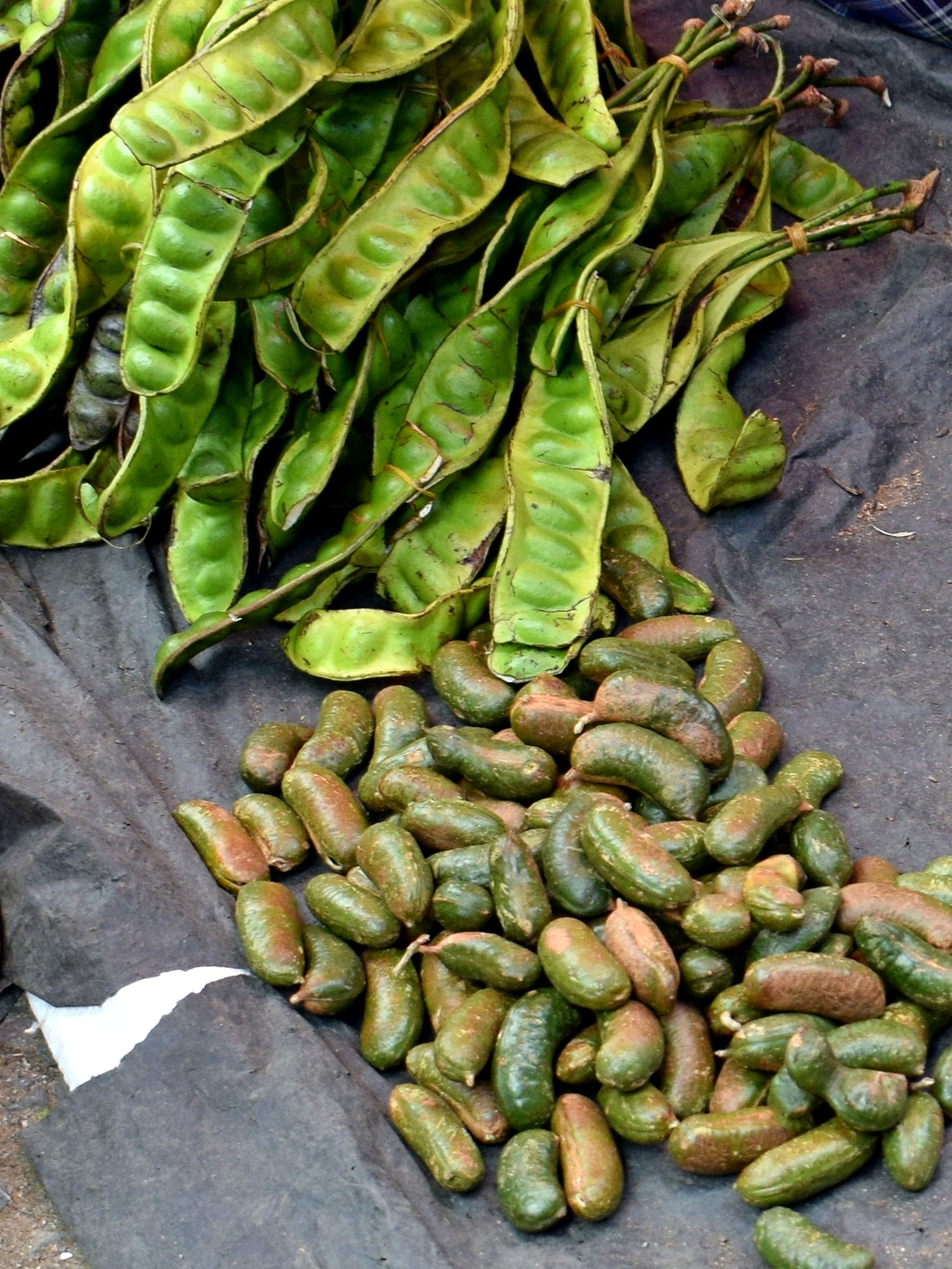 Stinky beans sold at Mukomuko market, Bengkulu, Sumatra. Green pods of petai (Parkia speciosa; upper), and dull reddish green pods of kabau (Archidendron bubalinum; lower)